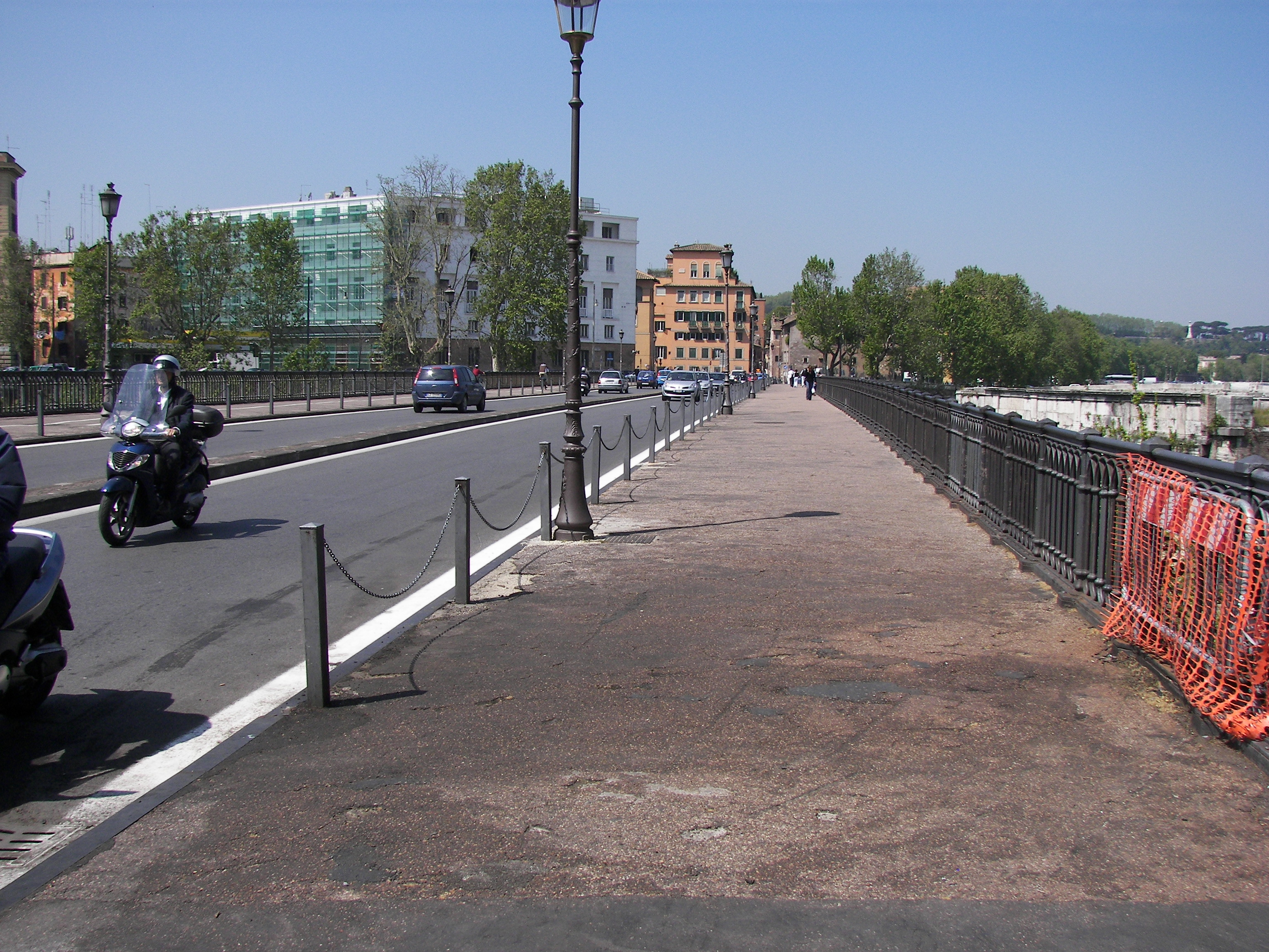 Looking westward on the Ponte Palatino in Roma. Ponte Rotto is to the right.